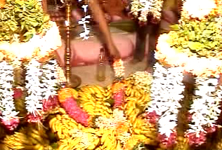 I took this Photo Graph.